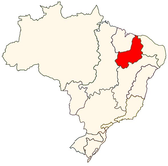 Hydrographics regions in Brazil - Parnaíba